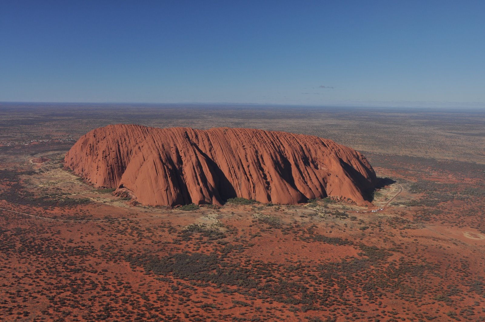 Ayers Rock